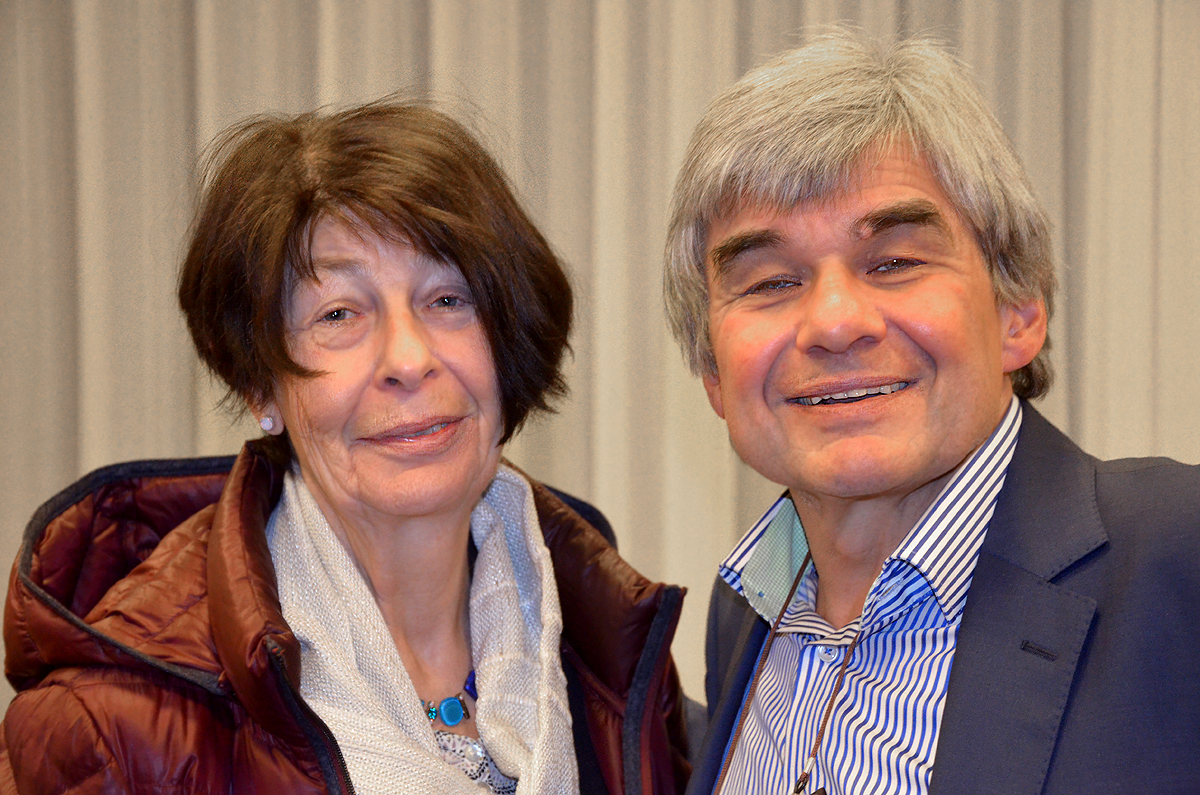 In October, 10th Dr. Matthias Küntzel explained the connections with Muslim Brotherhood and ISIS, the history of Islamism and its results ...